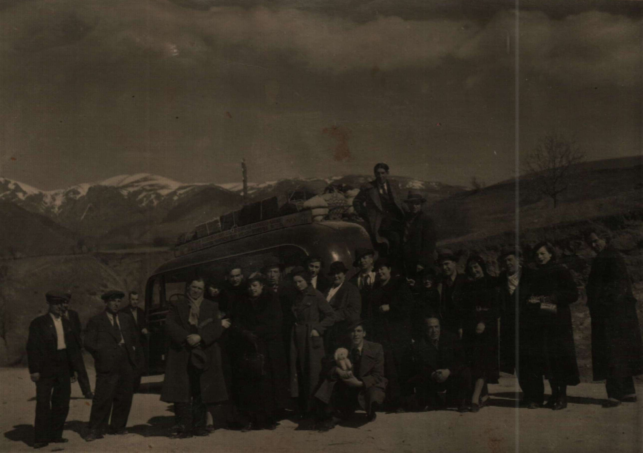 Actors and actresses of Bulgarian theatre Mara Toteva